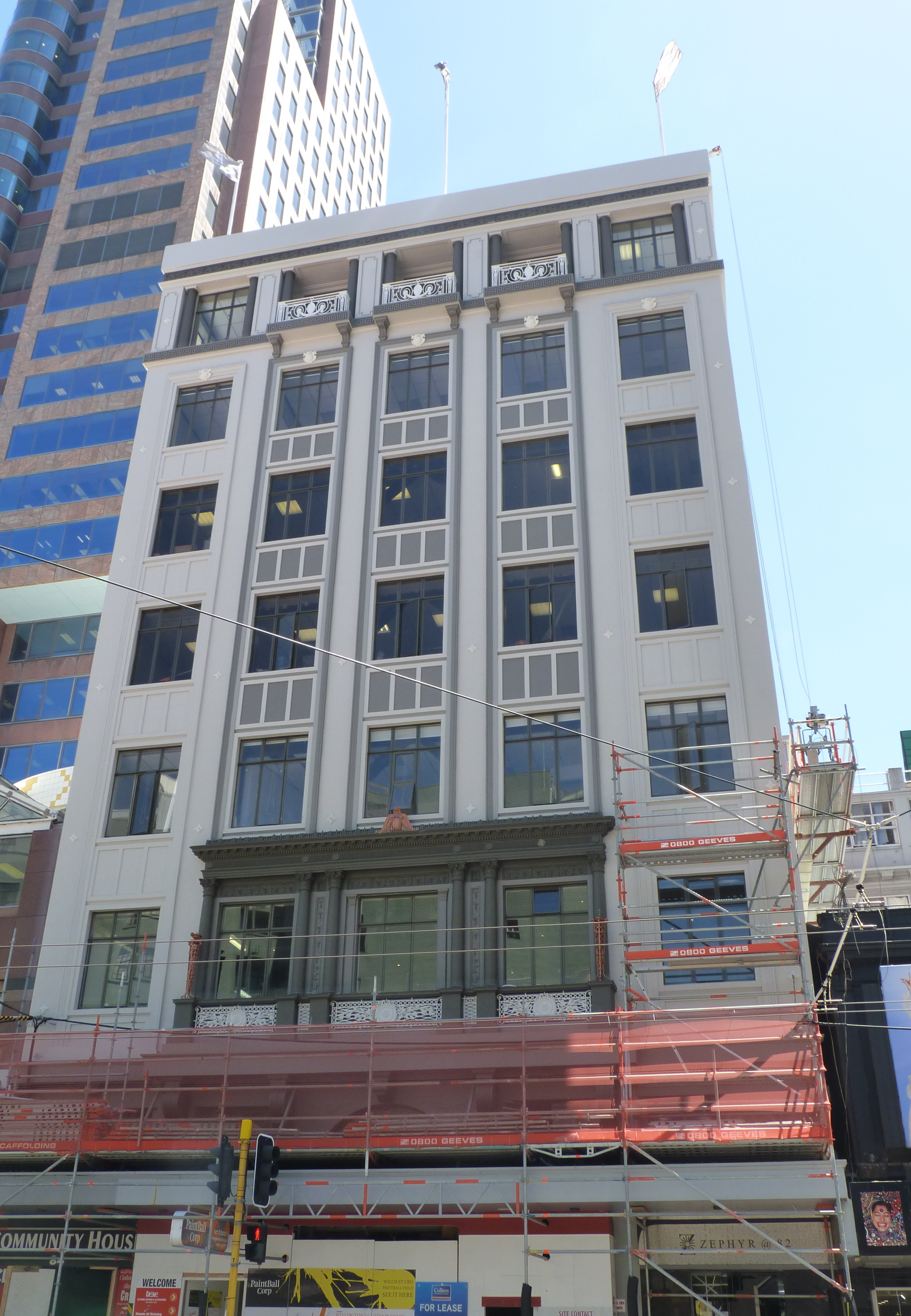 Evening Post Building. Wellington, Wellington Region, New Zealand